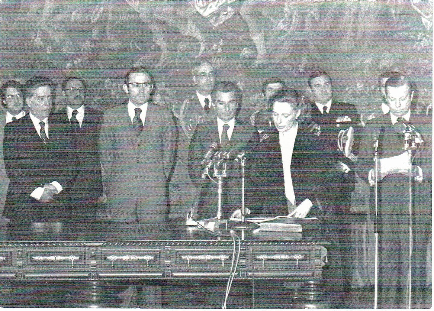 Tomada de posse do VI Governo Constitucional